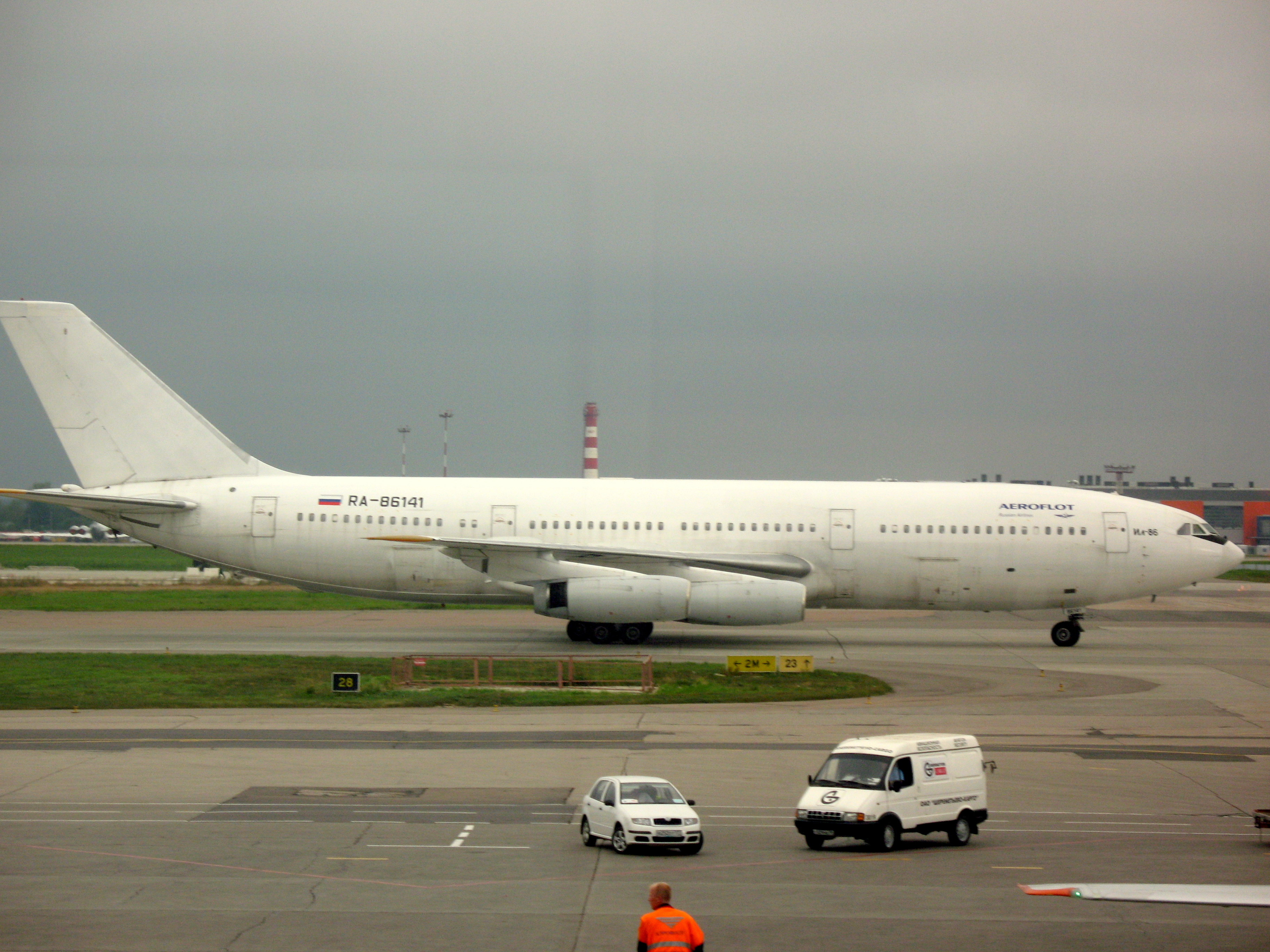 Il-86 at SVO